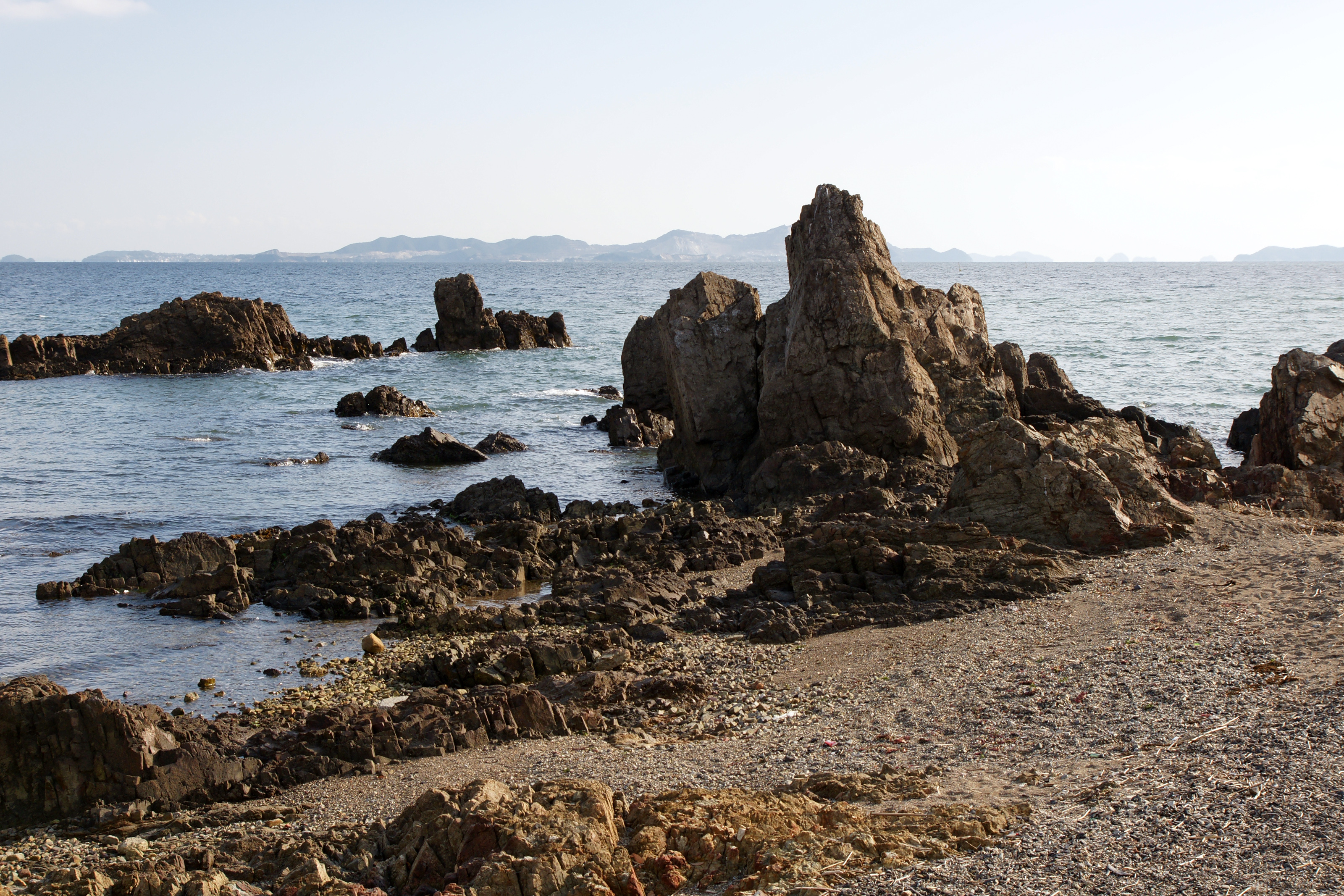 Misaki (Ako Misaki), Akō, Hyogo prefecture, Japan